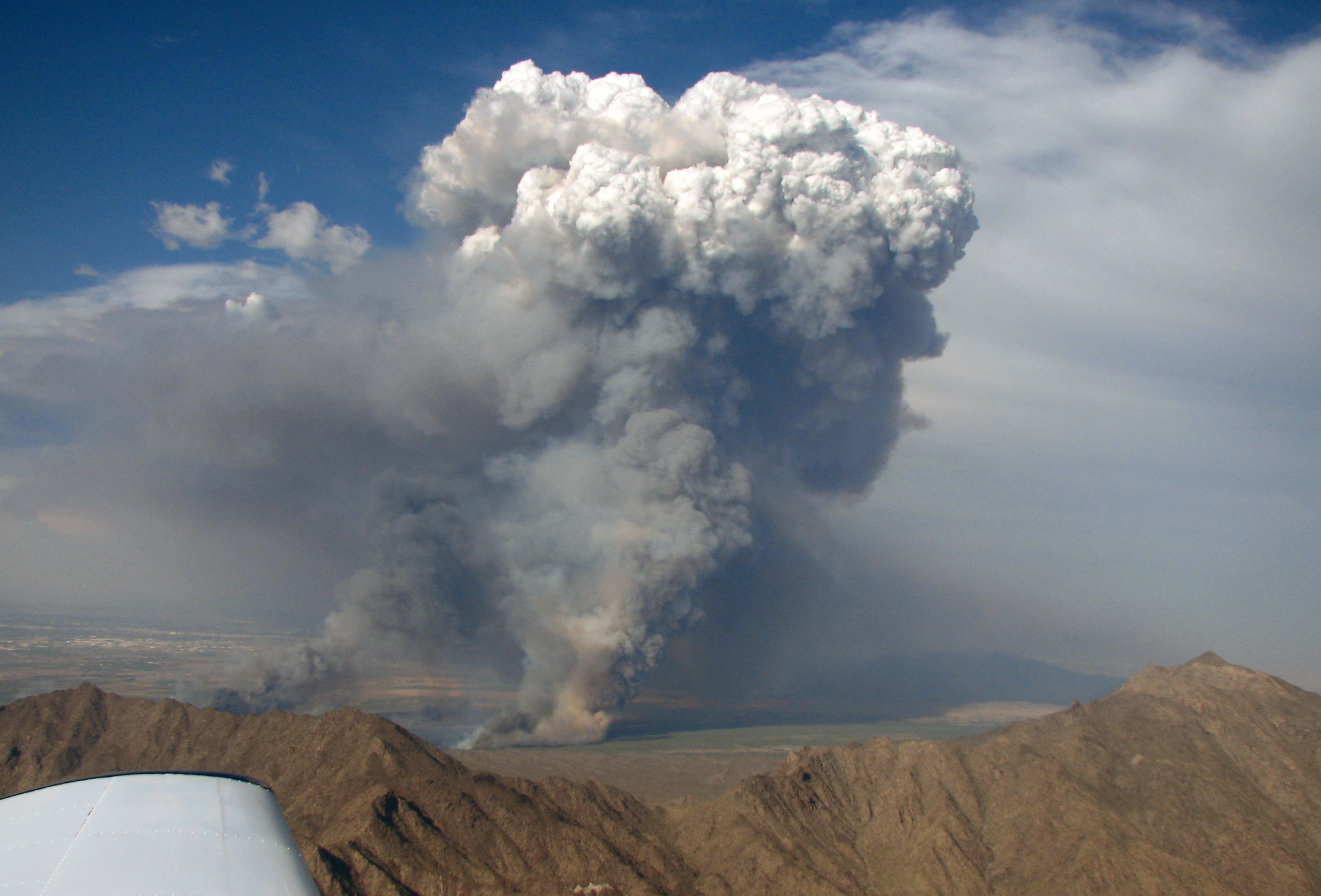 A photograph of a well-developed Pyrocumulus cloud produced by a bushfire in the Gila River valley southwest of Phoenix, Arizona. The charred trail left by the fire front can be seen in the background behind the Sierra Estrella. This picture was taken from a Piper Warrior at 5500 feet over Rainbow Valley.